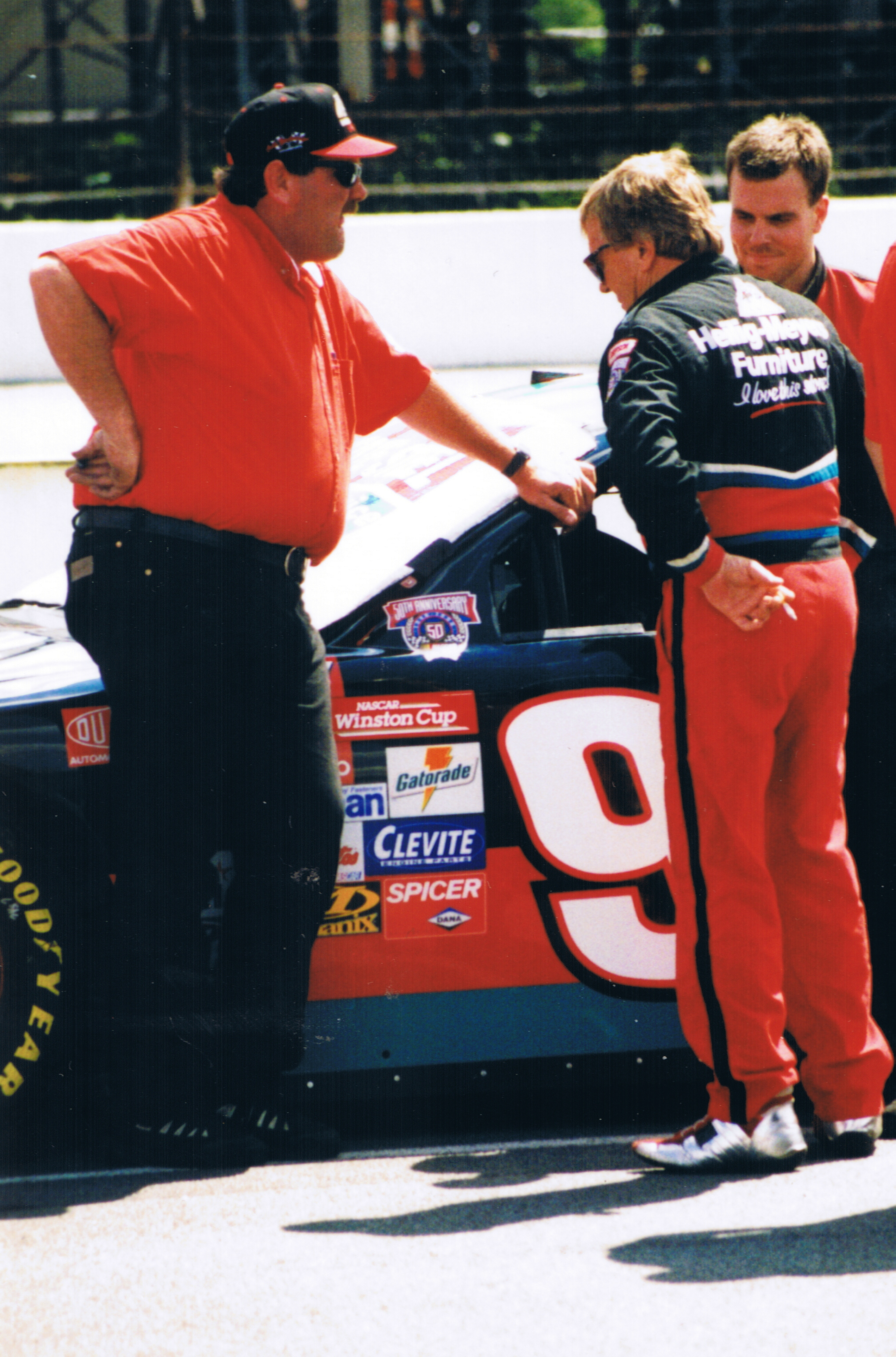 Dick Trickle having a Cigarette before getting in the race car.